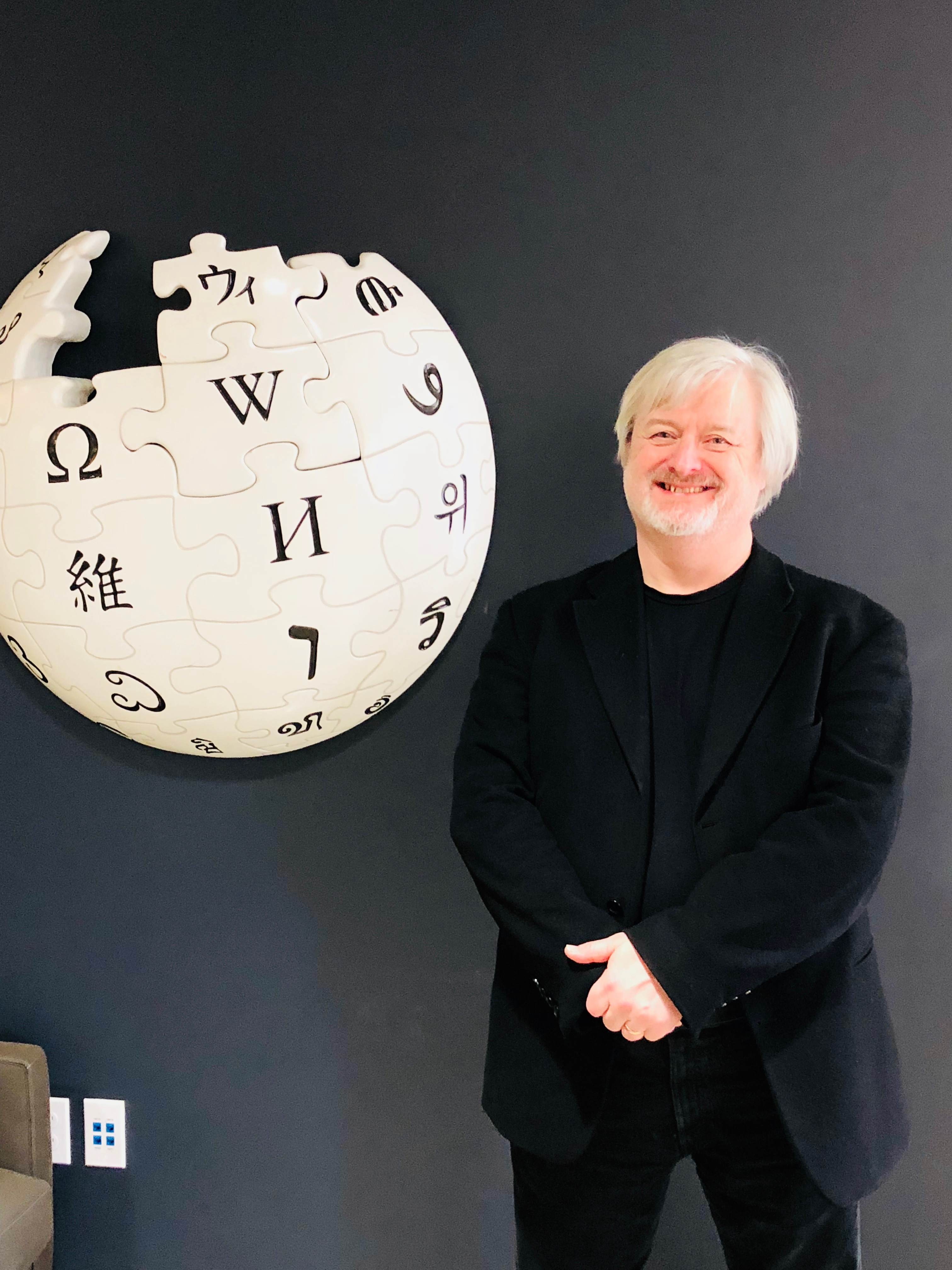 Simon Phipps visited the Wikimedia Foundation office in April 2018 along with hackathon winners from South Tyrol free software conference from northern Italy.